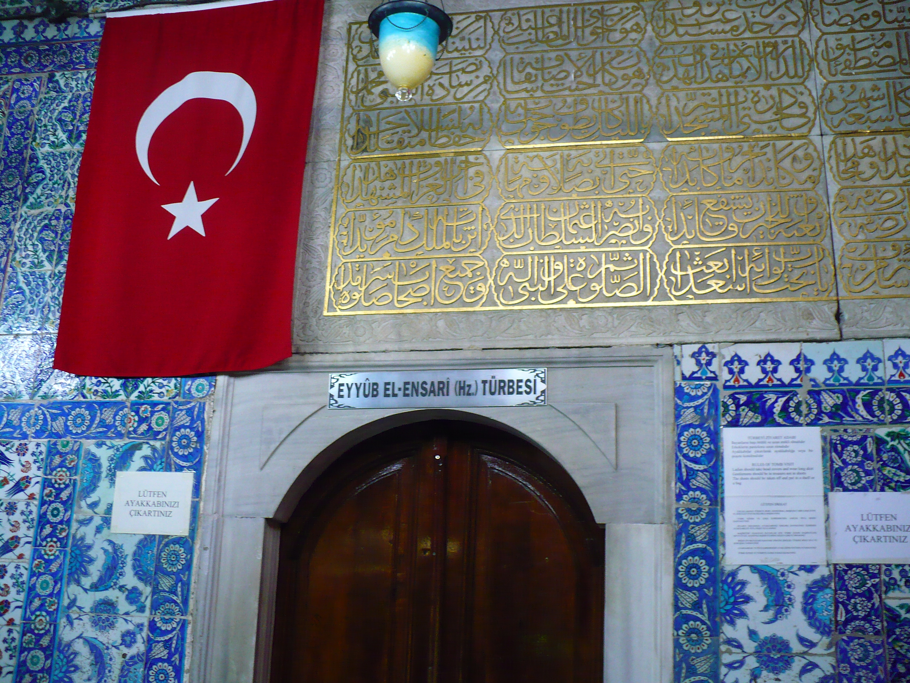 Abu Ayyub al-Ansari's grave (türbe) in Eyüp Sultan Mosque, İstanbul/Turkey